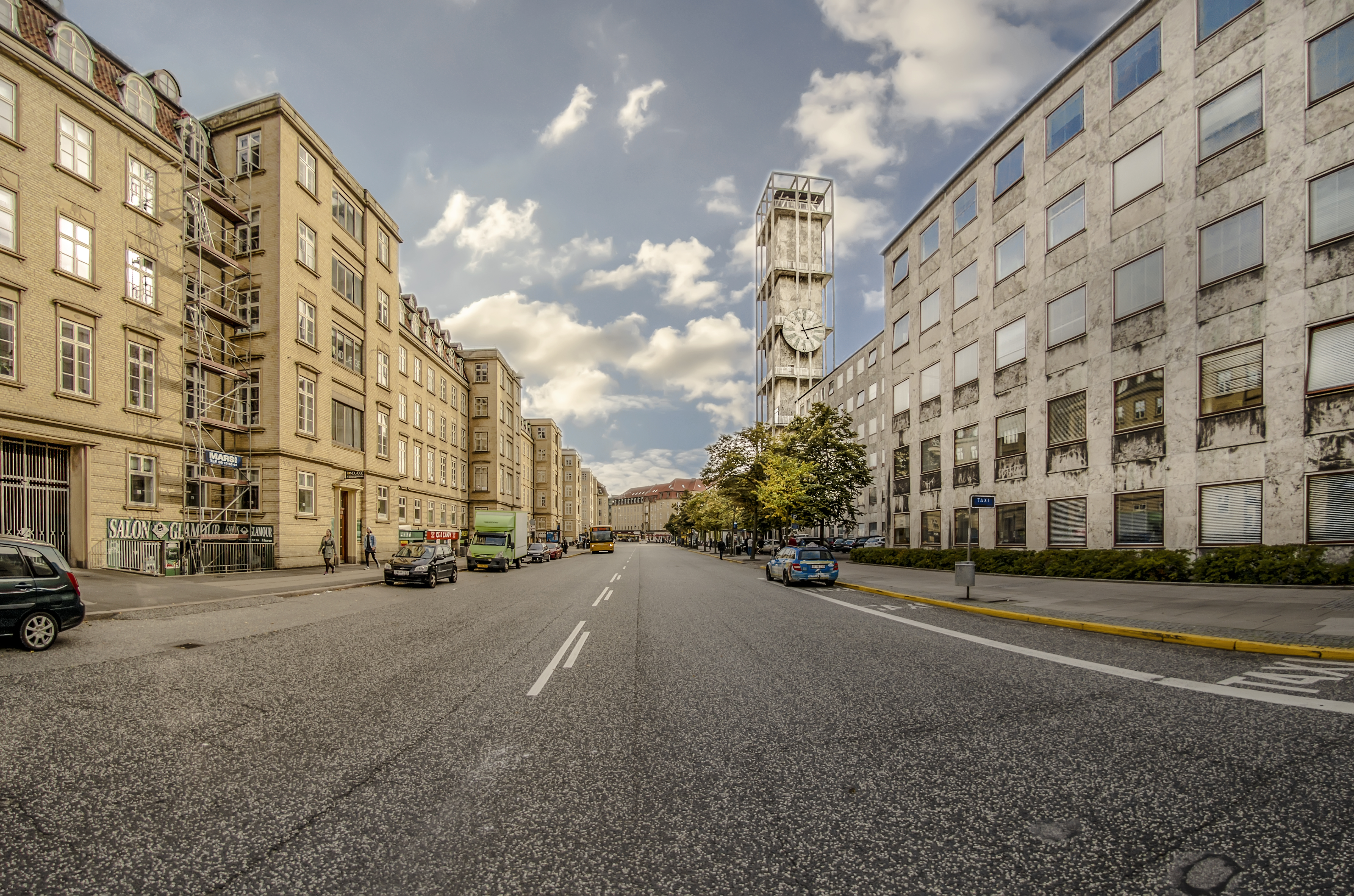 Park alle in Aarhus early summer morning